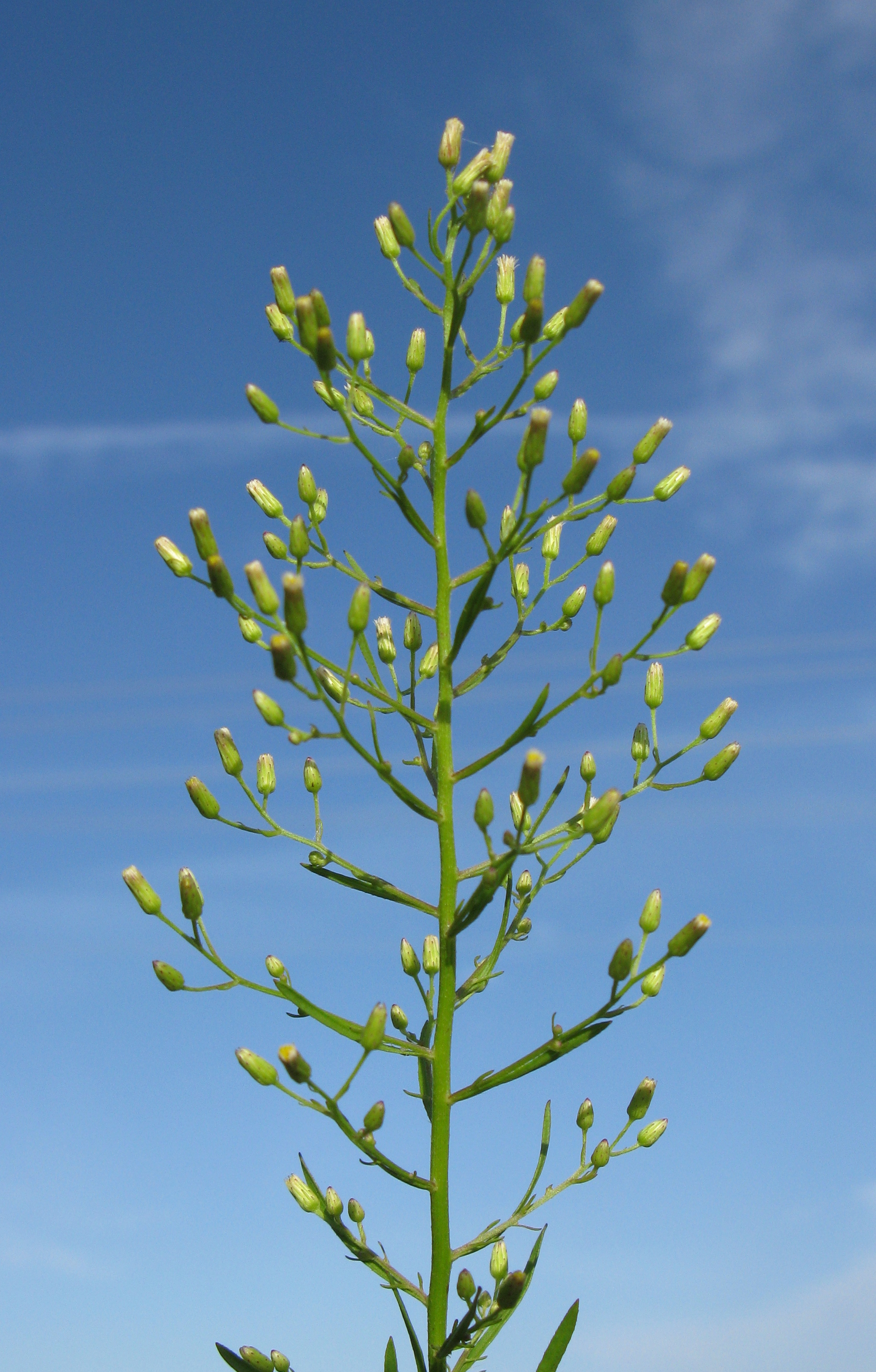 Flowerheads are narrow panicles with small heads (3-4 mm long) that have red to purple tipped hairless (or nearly so) bracts that surround each head. Flowering is mostly in summer and autumn.